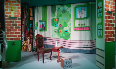 Lunada Children Museum